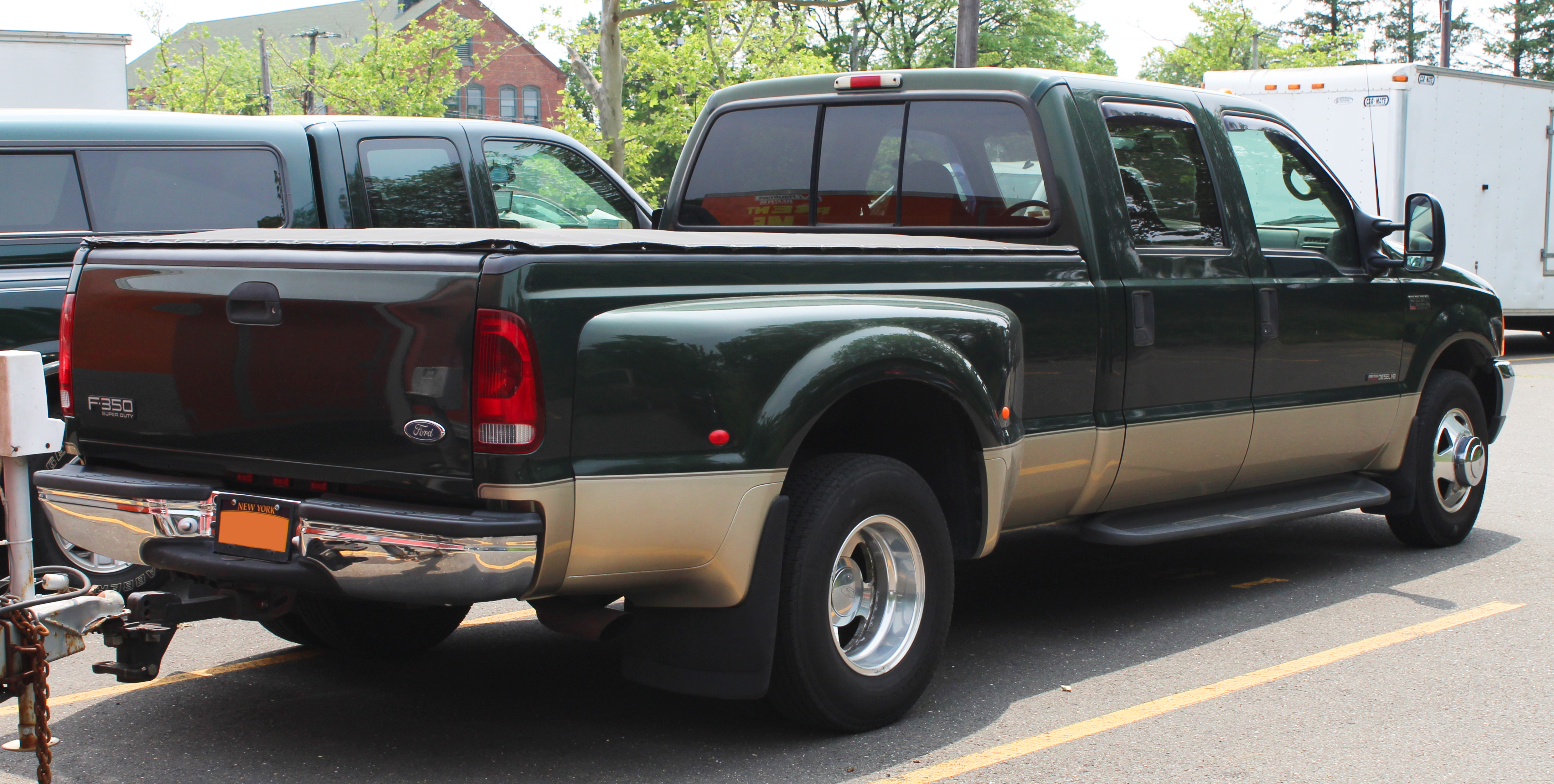 A 2000 Ford F-350 Super Duty Crew Cab photographed in Greenwich Concours d'Elégance Hagerty parking lot, Connecticut, USA